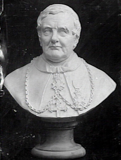 Bust of Mgr.Bottemanne, bishop of Haarlem